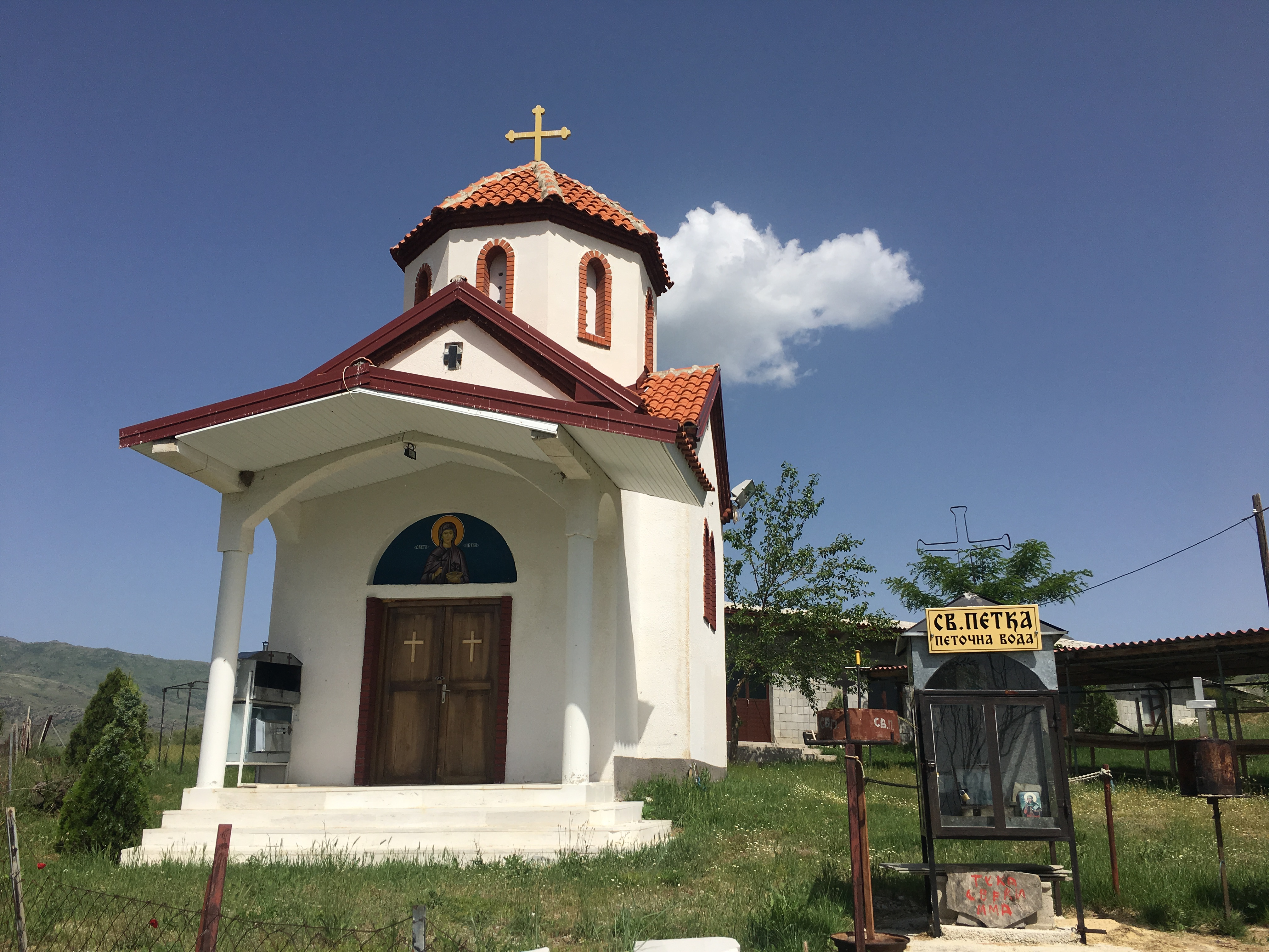 St. Petka Church in the village of Musinci